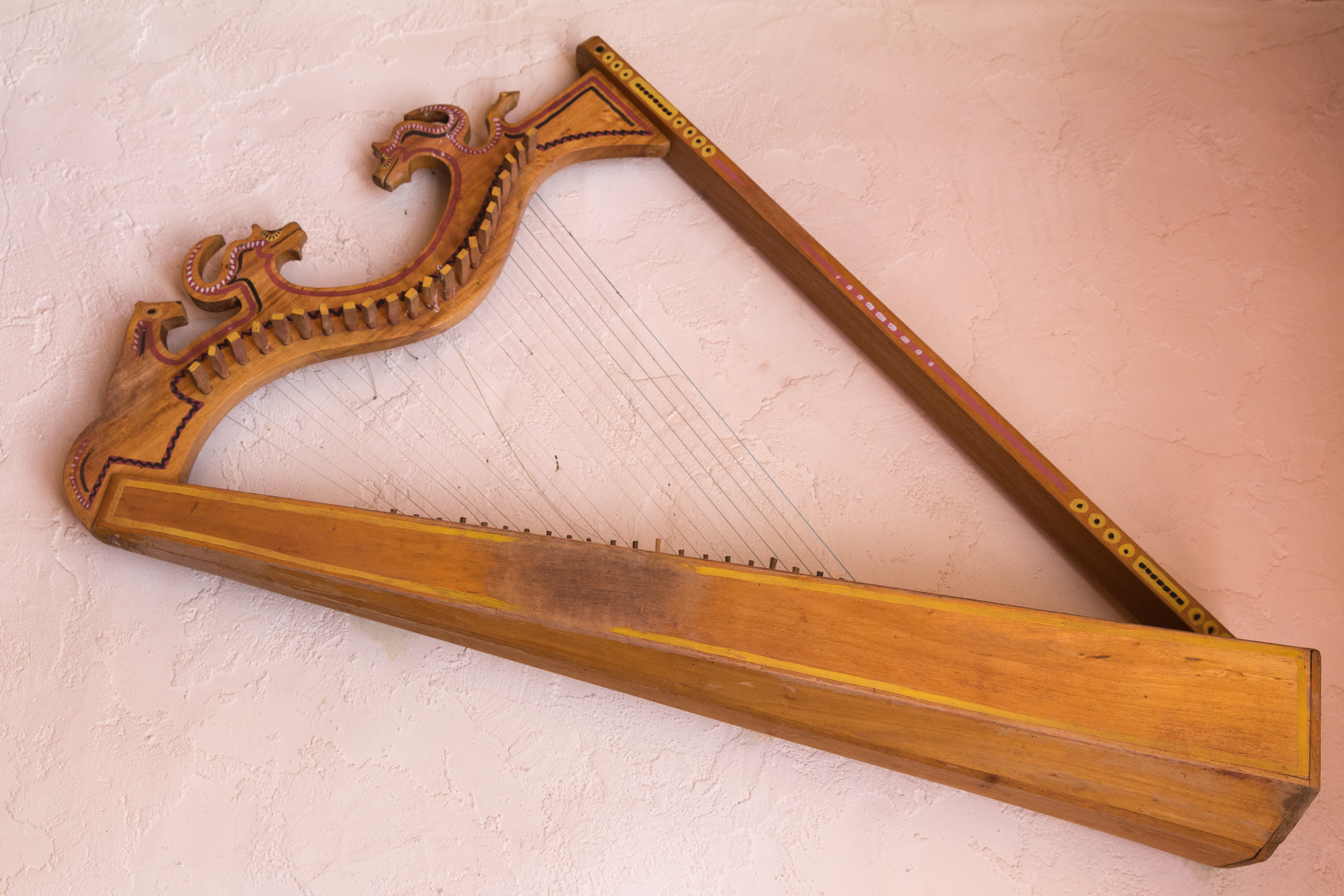 Harp at a restaurant in Disneyland Paris.